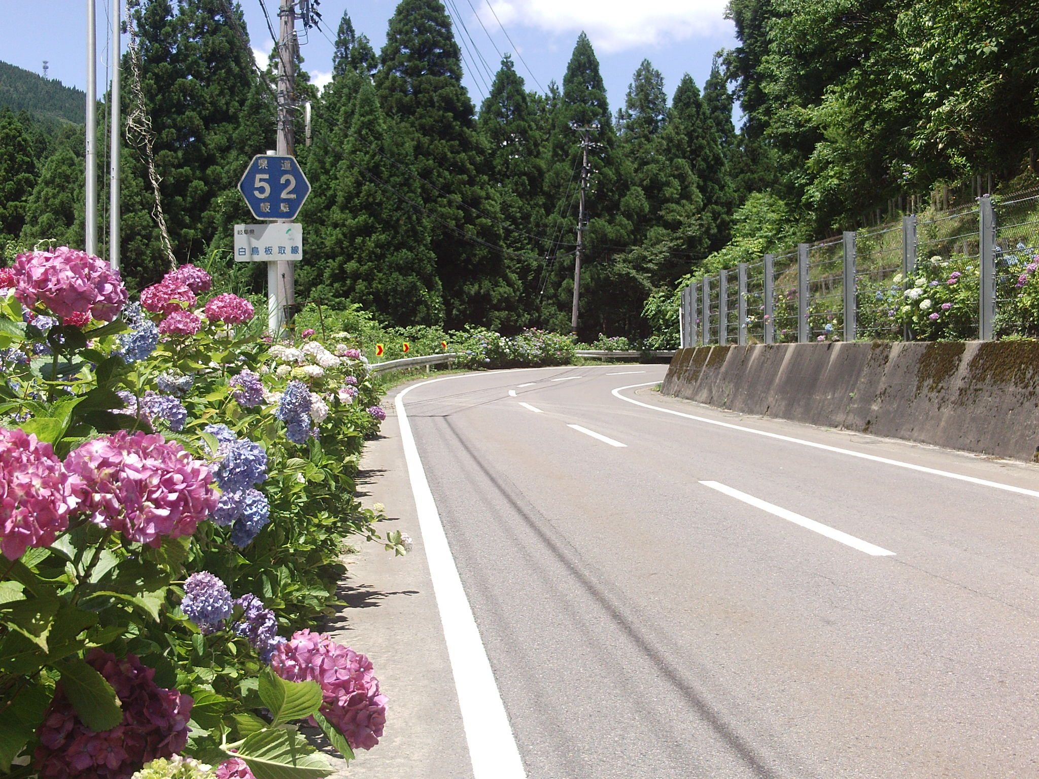 Gifu prefectural road No.52 in Itadori, Seki, Gifu.